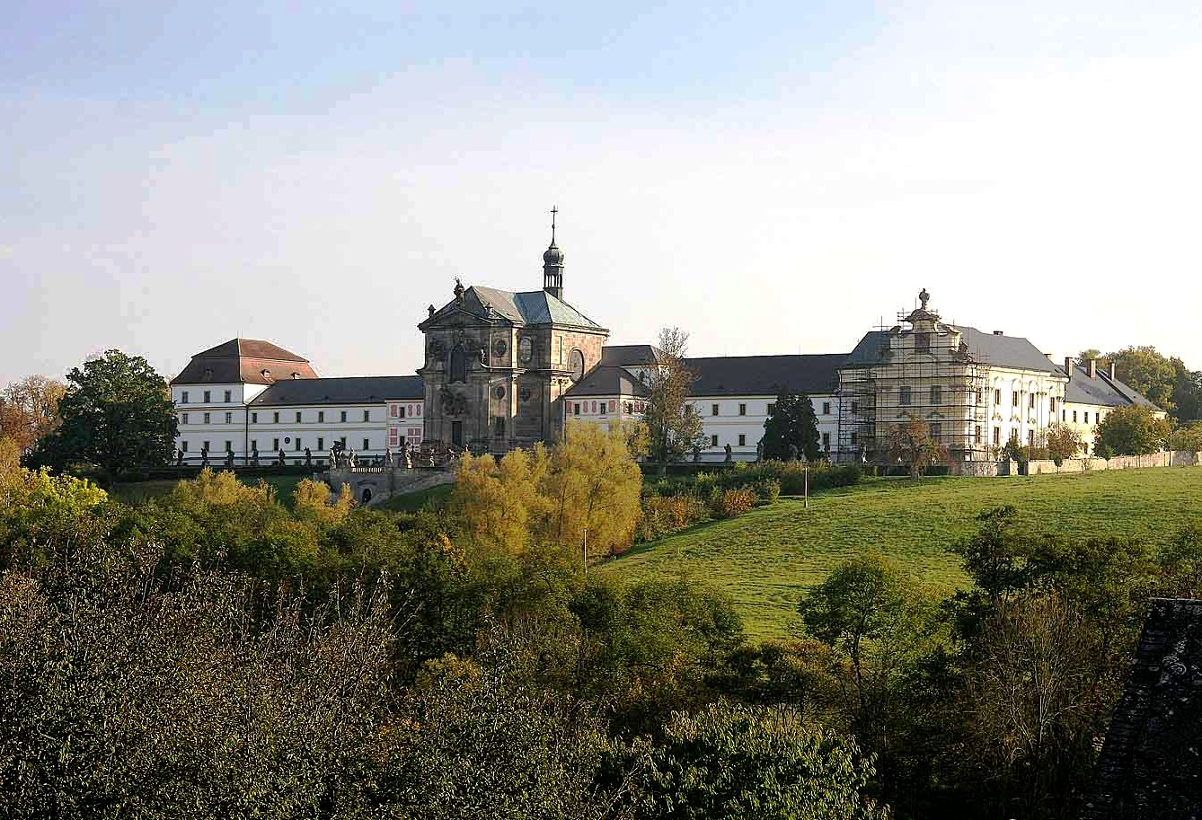 Hospital and church in Kuks, district Trutnov, Czech Republic autor: Prazak date:15. 10. 2006